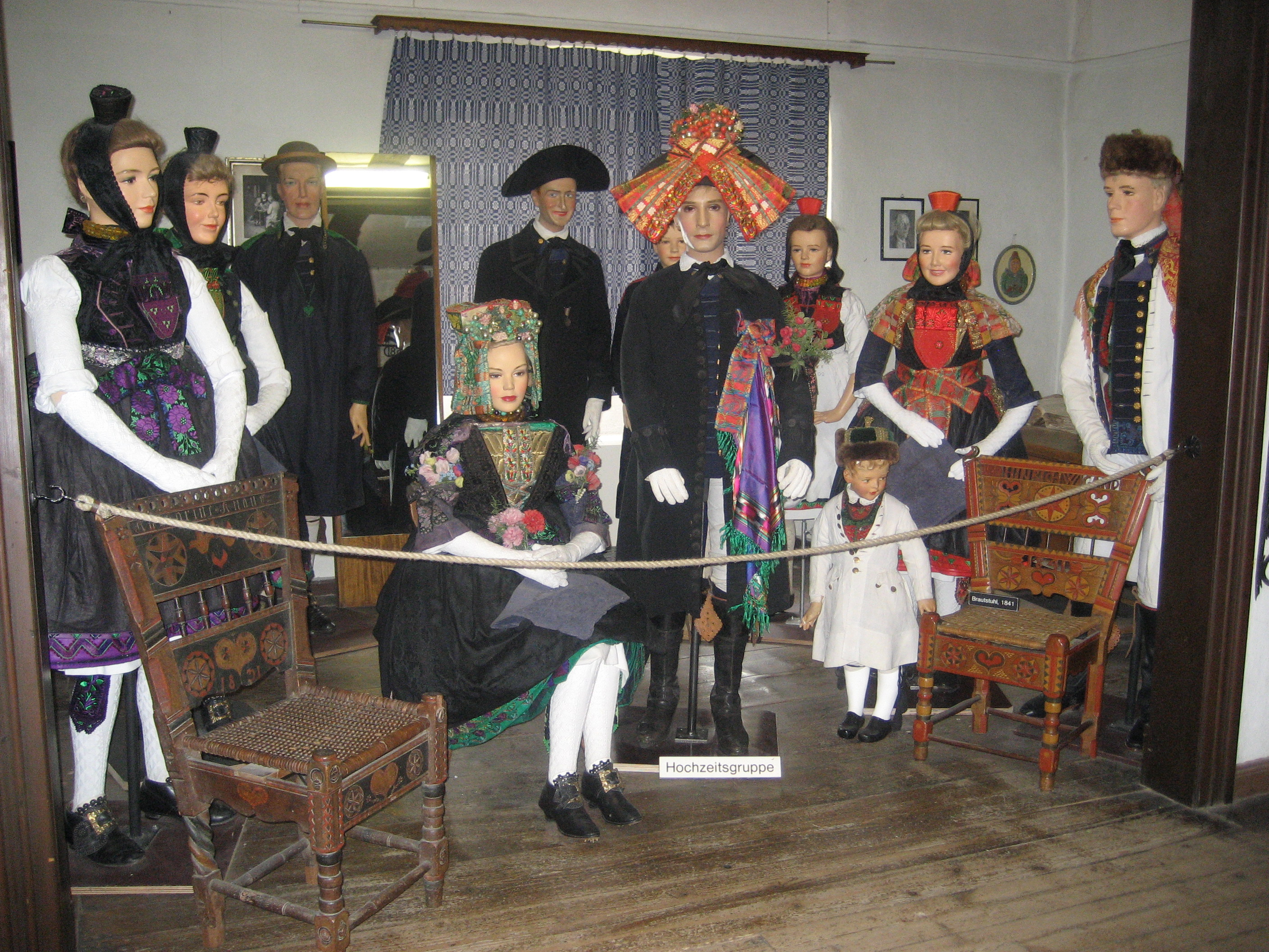 Wedding Group, Museum der Schwalm